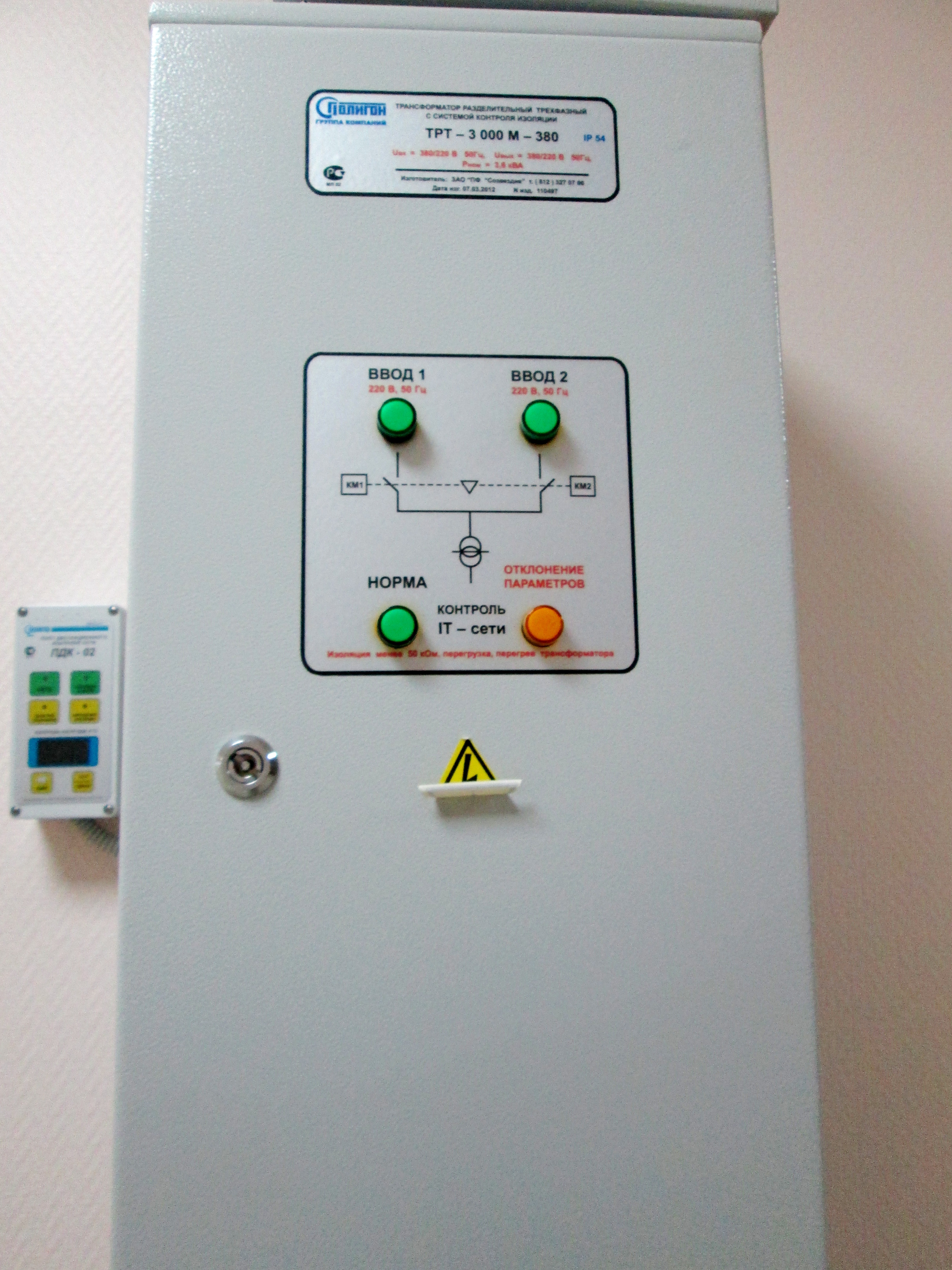 Medical isolation transformer